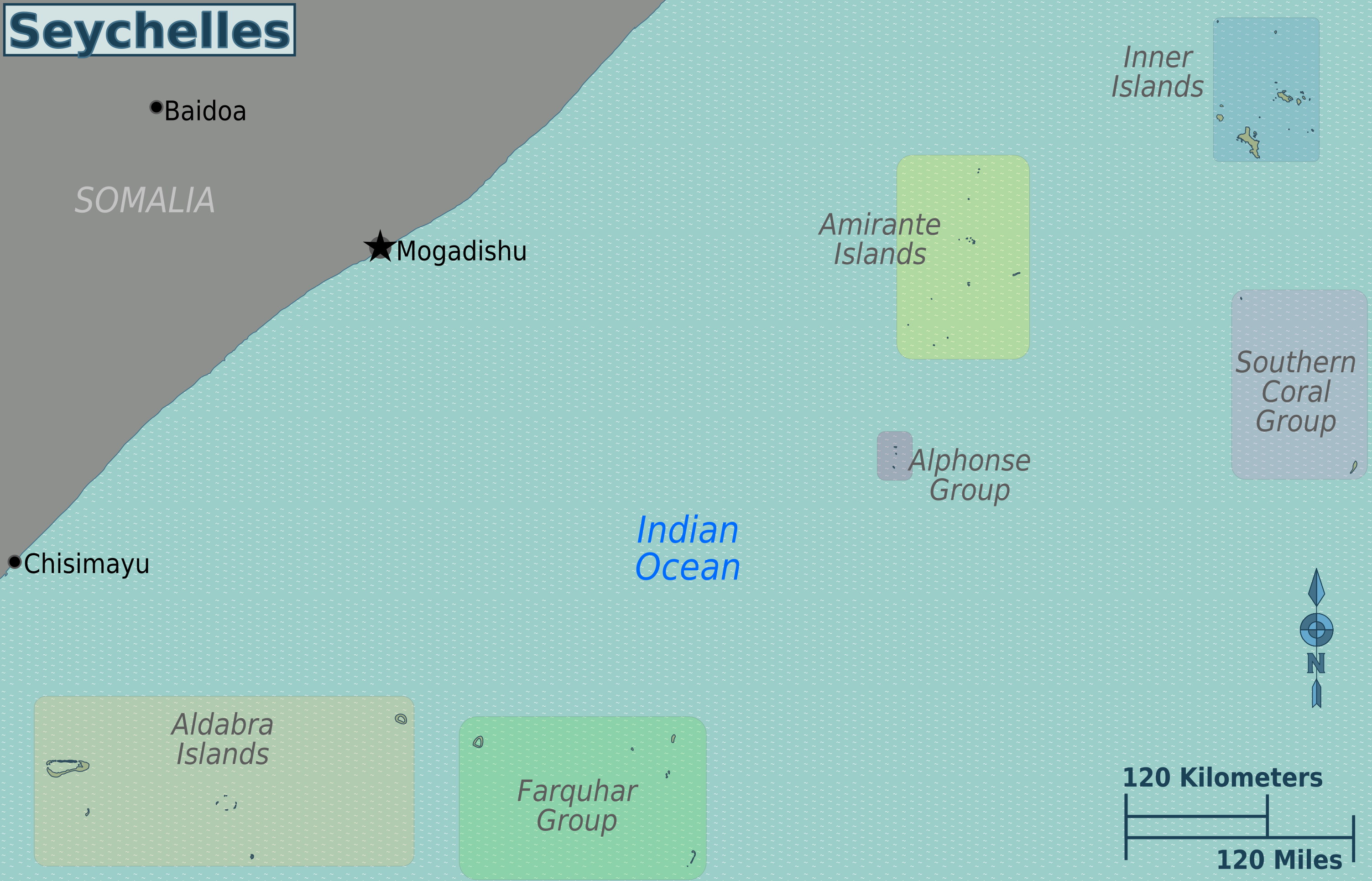 Seychelles regions map. English version, Seychelles Map of: Seychelles¤.